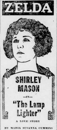 Advertisement for the American drama film The Lamplighter (1921) with Shirley Mason, on page 11 of the June 8, 1921 Duluth Herald.